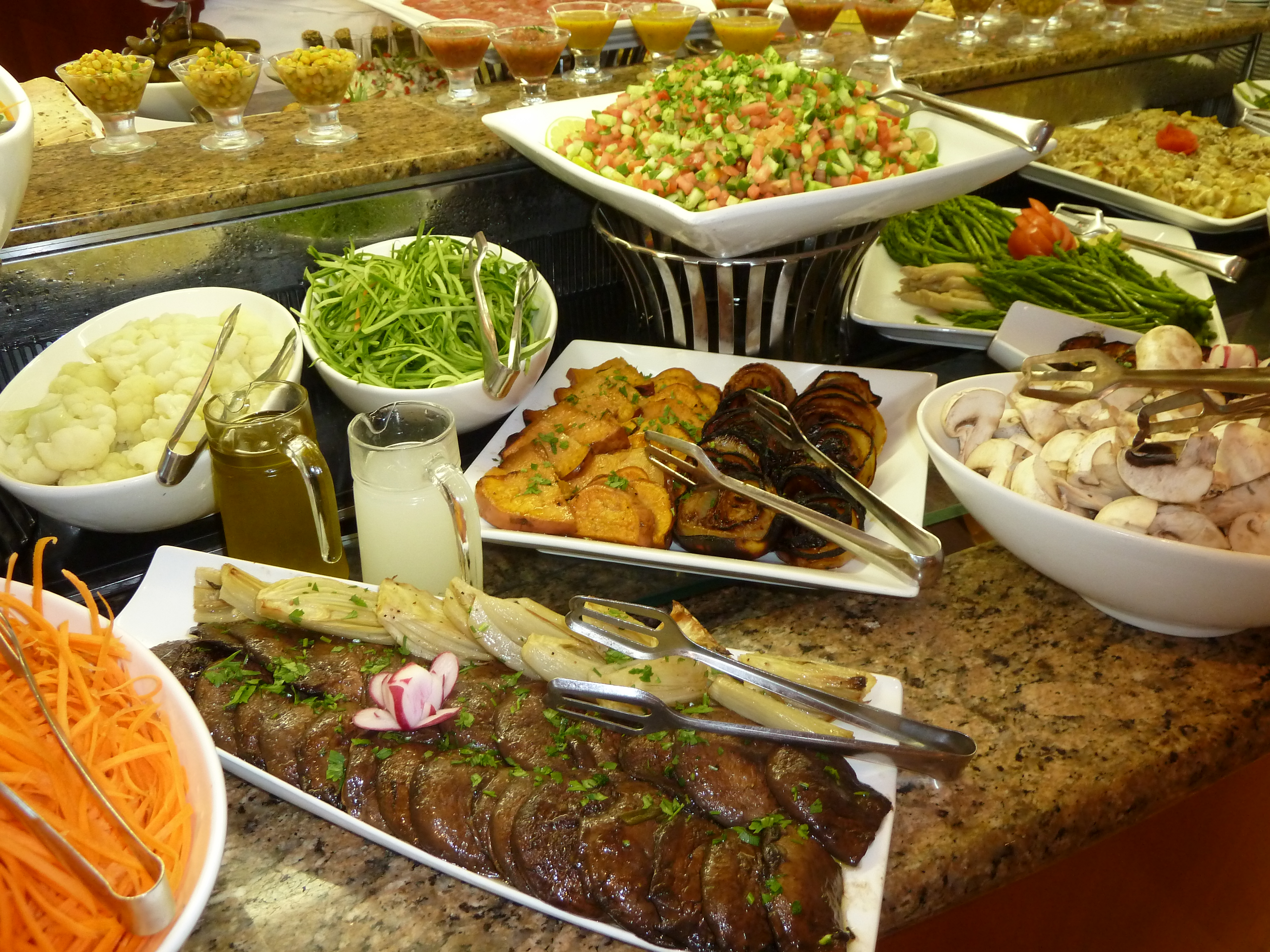 Cuisine of Israel, as seen duirng lunch in the Hilton Tel Aviv